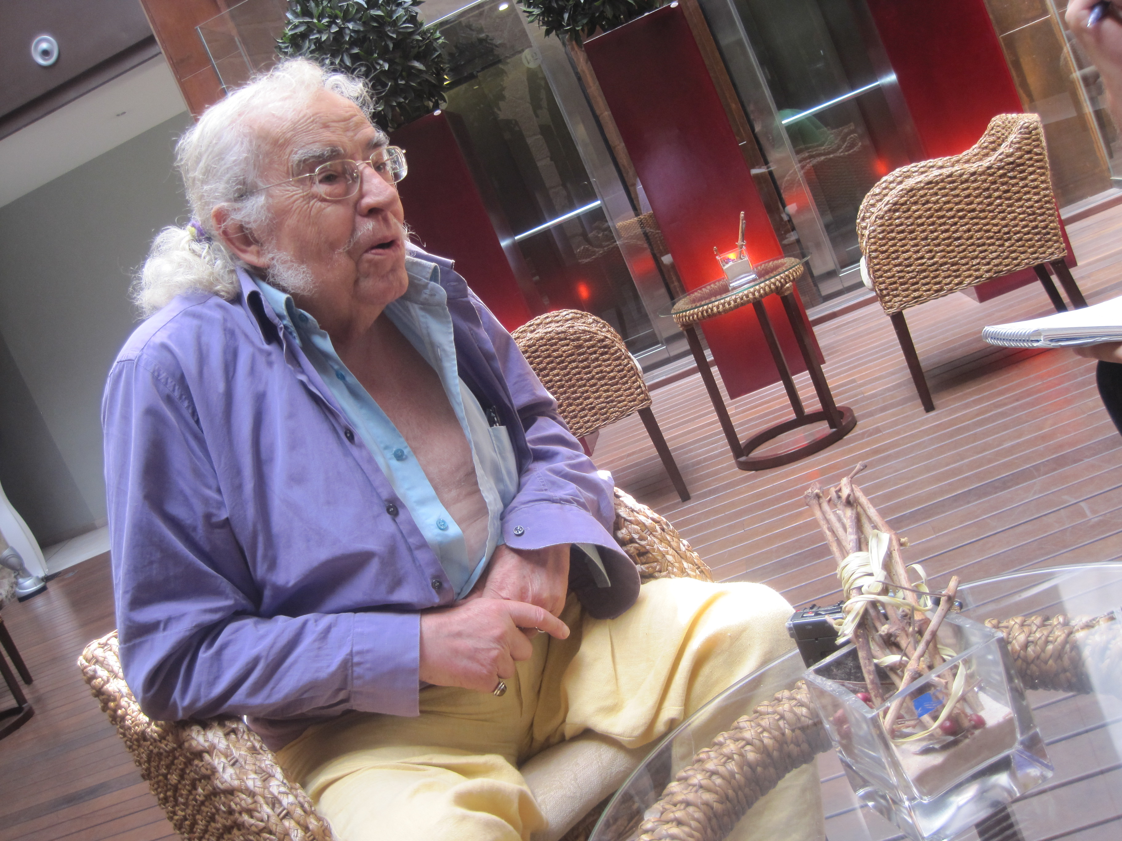 Agustín García Calvo, in Logroño (La Rioja, Spain).